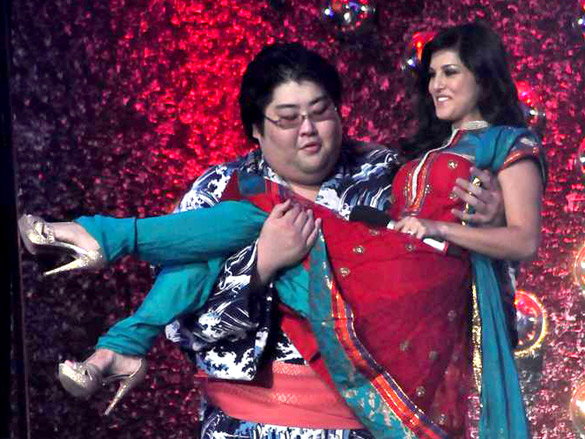 Sunny Leone at Bigg Boss series, India